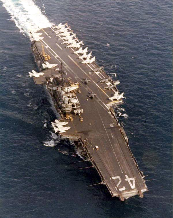 Aerial view of the U.S. Navy aircraft carrier USS Franklin D. Roosevelt (CV-42) in the Mediterranean Sea, in 1976/77. On her last deployment Carrier Air Wing 19 (CVW-19) was embarked on the FDR. Also part of CVW-19 were Hawker Siddley AV-8A Harrier fighters of Marine attack squadron VMA-231 Ace of Spades, five of which are visible on deck. Two Harriers are preparing for a take-off run.